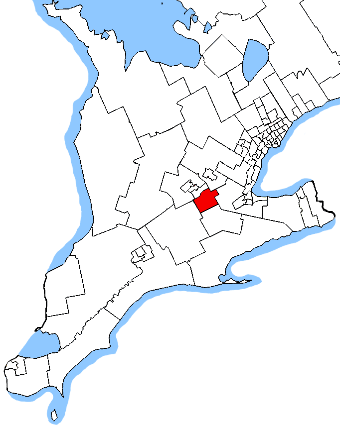 based on the map by User:SimonP which was based on maps by me.